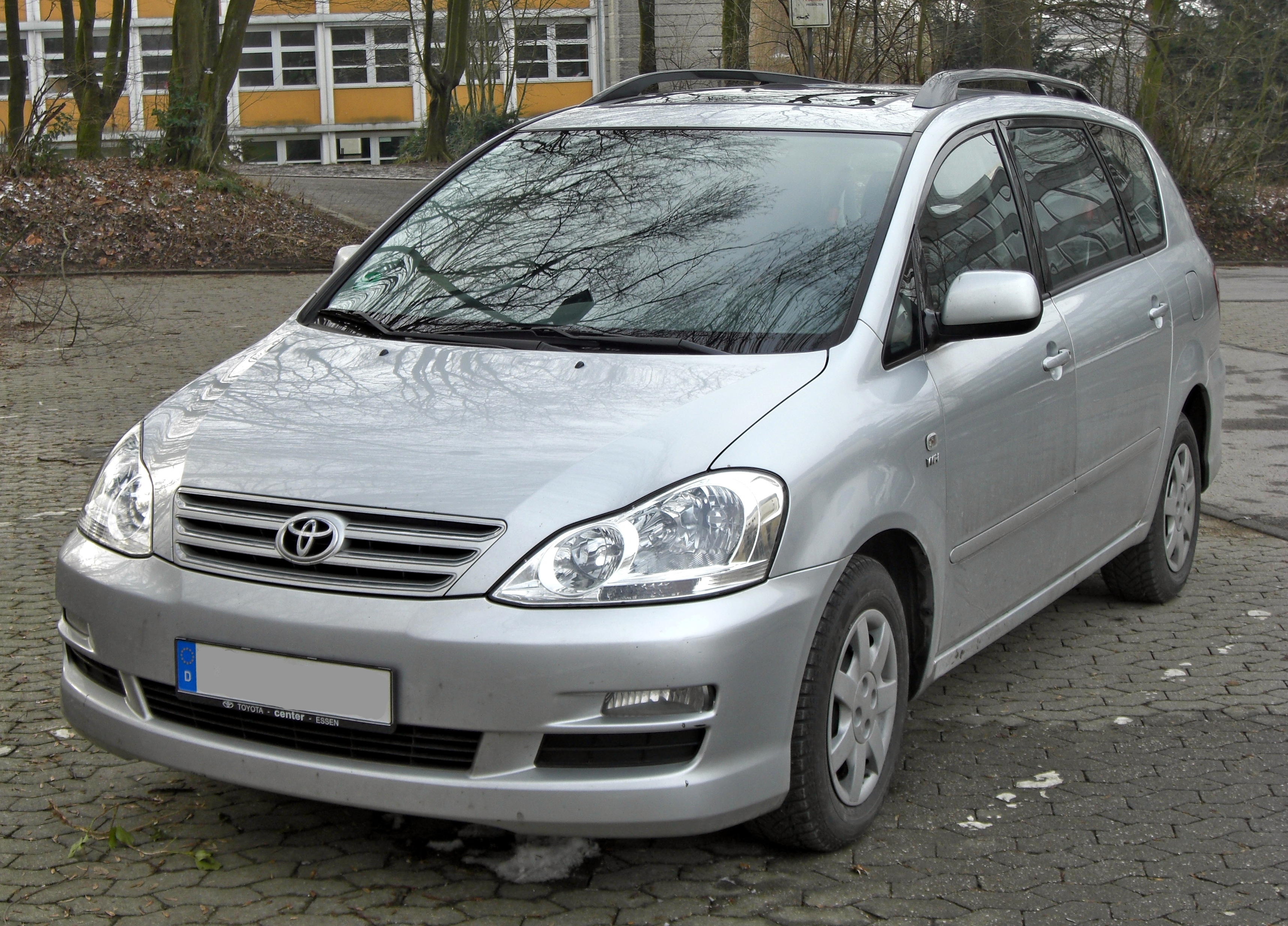 Toyota Avensis Verso